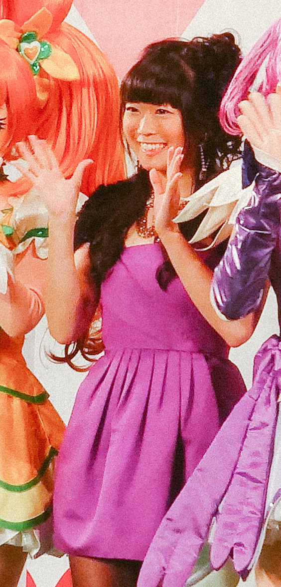 A cropped version of the previously uploaded photo of DokiDoki Pretty Cure!'s seiyu, uploaded by Coro95.